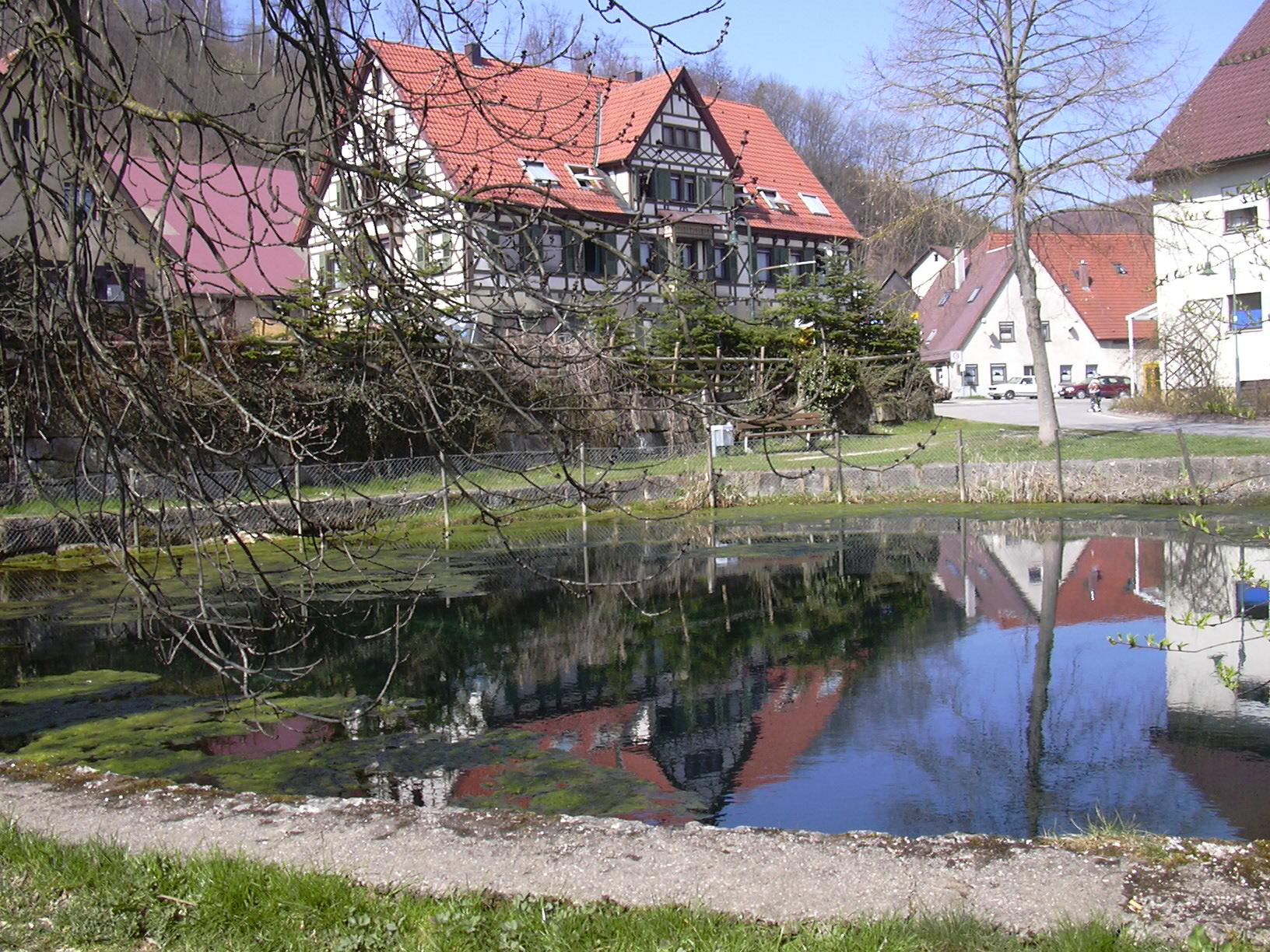 Karst spring of river Lone, Swabian Alb in Urspring, Germany.